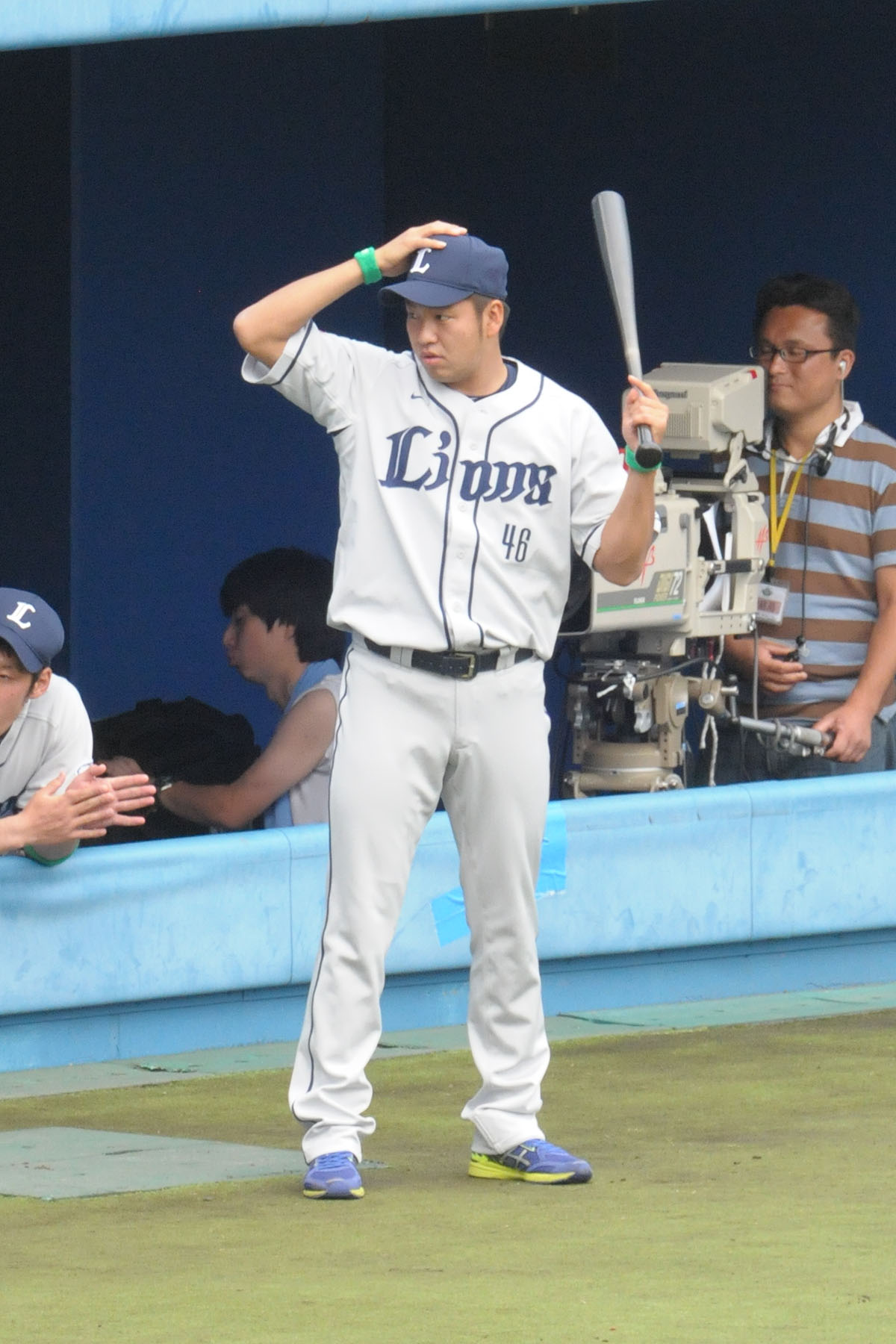 Yuta Nakazaki, pitcher of the Saitama Seibu Lions, at Akita Prefectural Baseball Stadium.